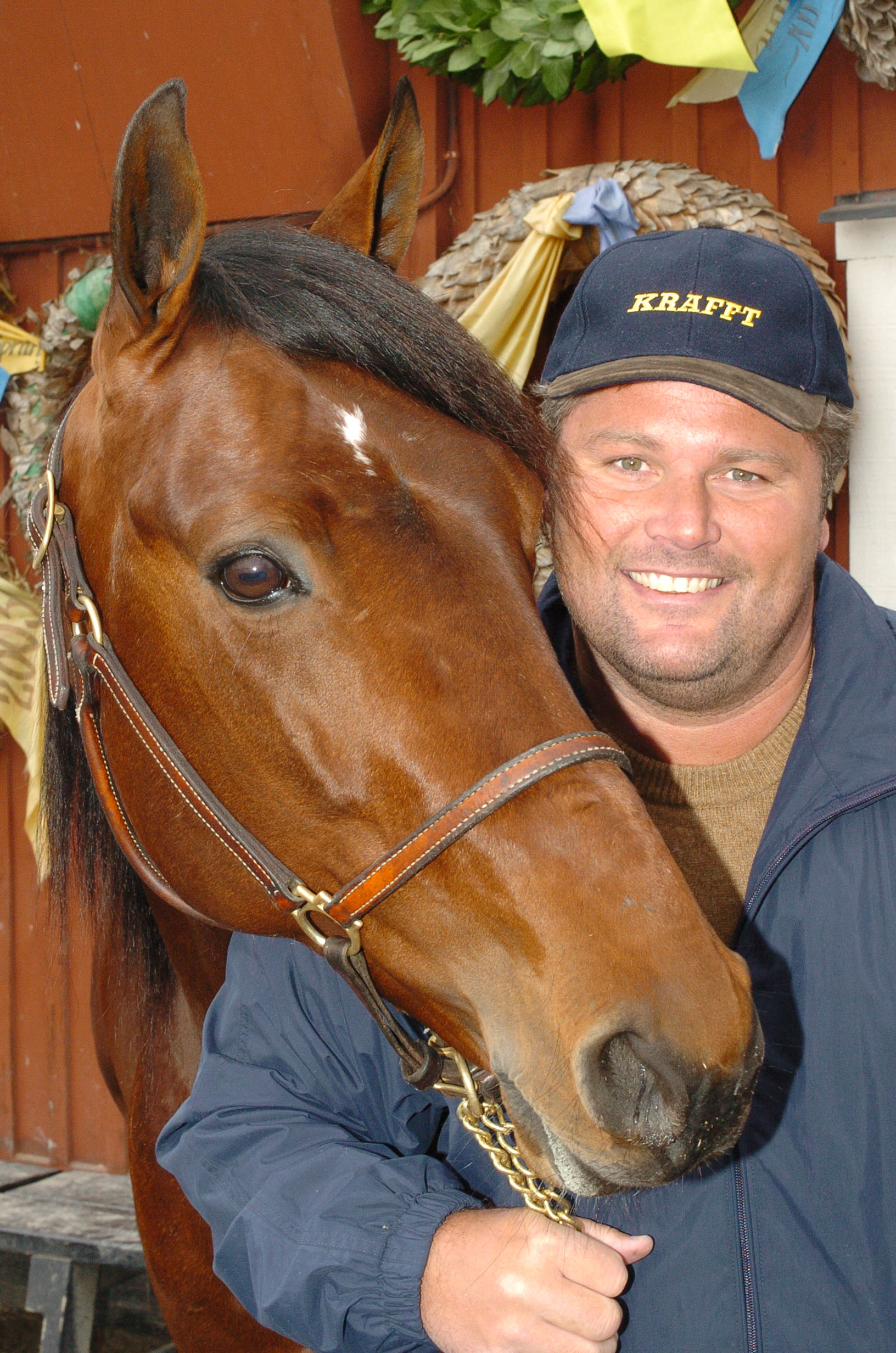 Stefan Hultman tillsammans med Naglo, 2005. Foto: Petri Johansson, Kanal 75